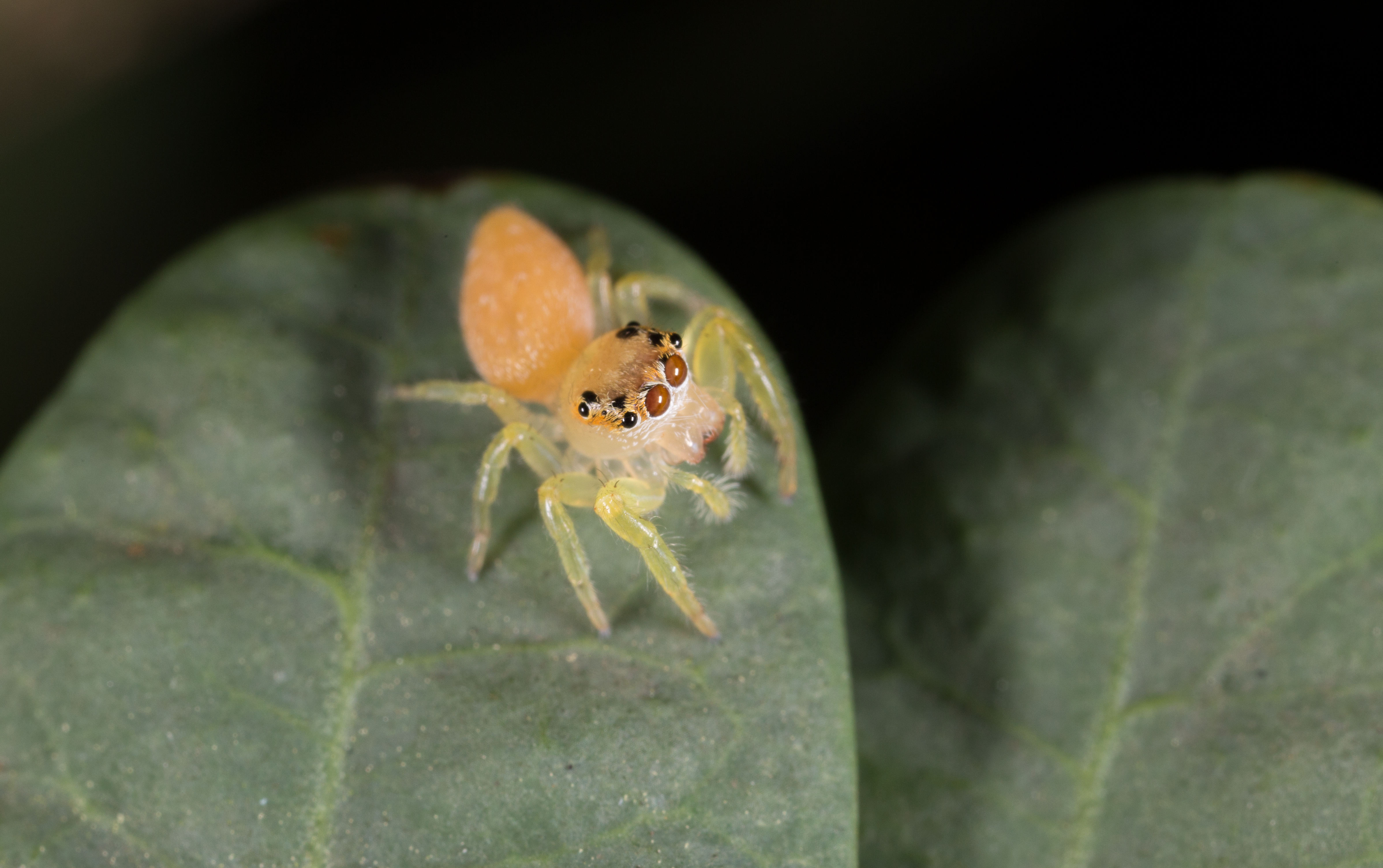 Opisthoncus polyphemus